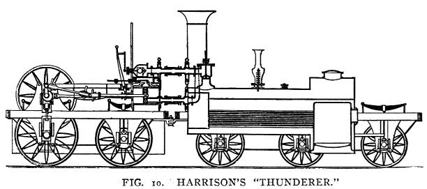 Harrison's THUNDERER